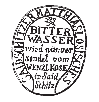 Saidschitzes Mattias Losisches Bitterwasser clay pot logo